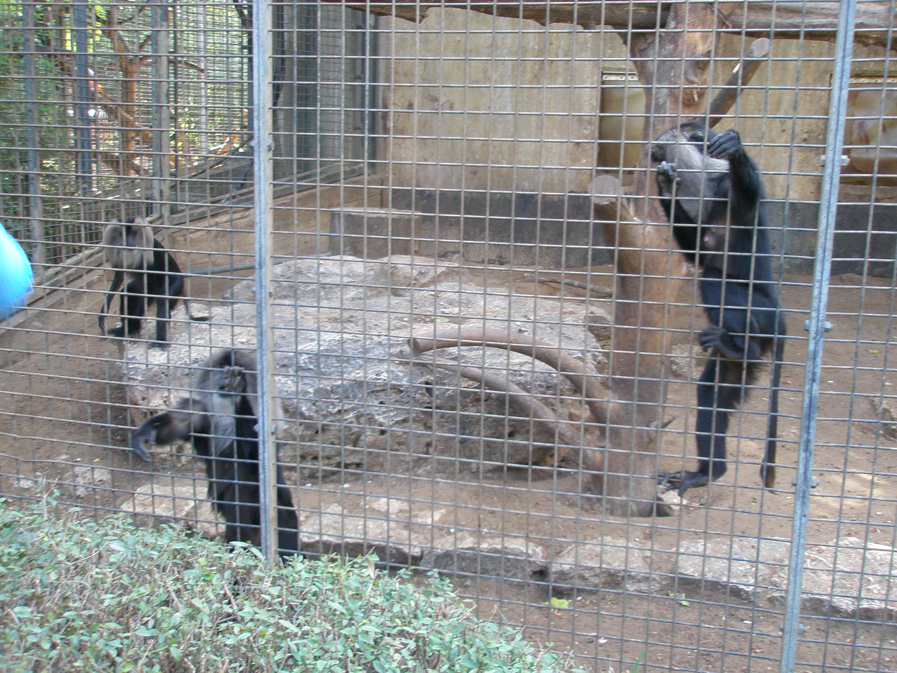 Lion-tailed_Macaque at Zoological Center of Tel Aviv-Ramat Gan